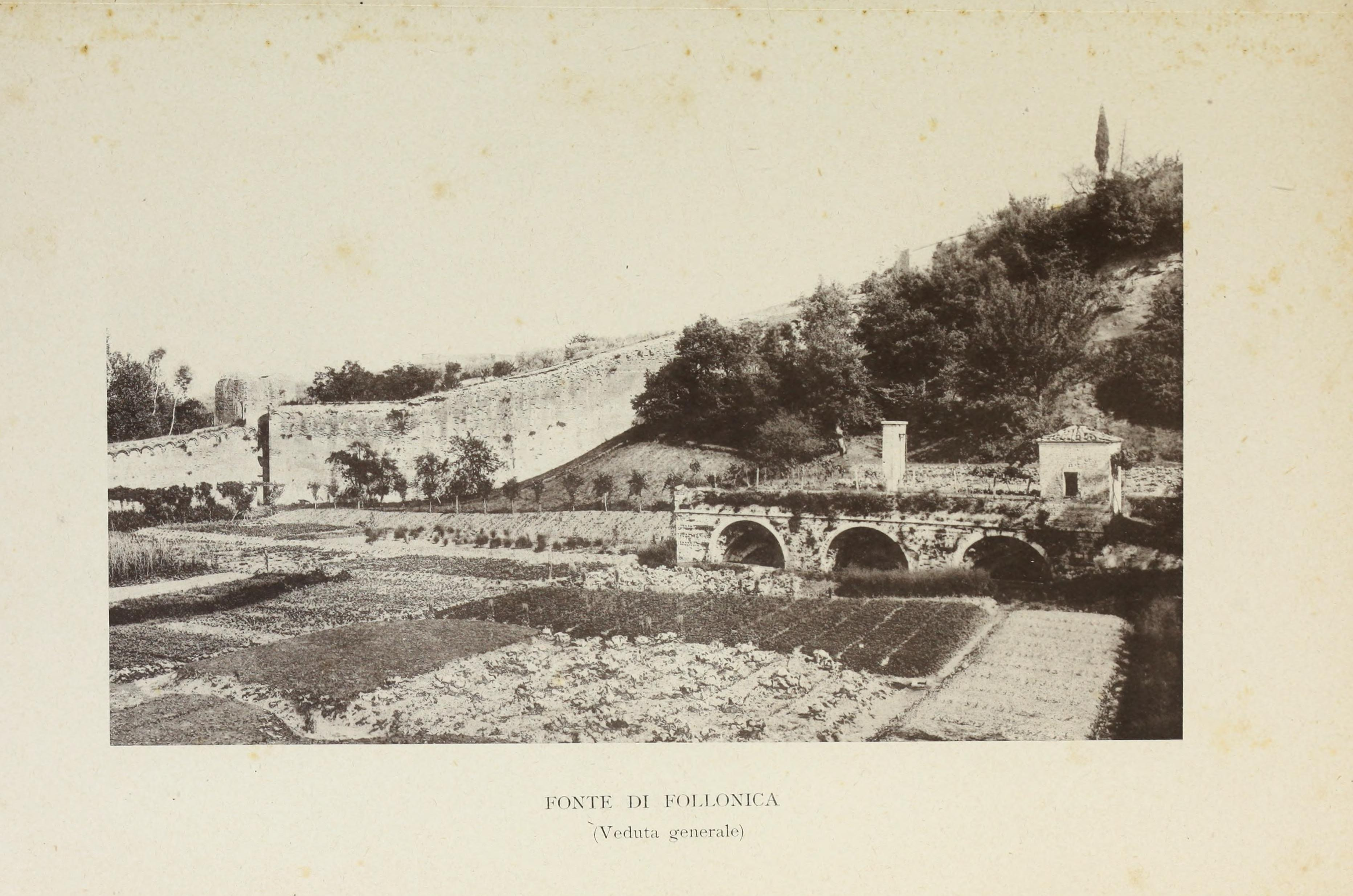 Title: Le fonti di Siena e i loro aquedotti, note storiche dalle origini fino al MDLV Year: 1906 (1900s) Authors: Bargagli Petrucci, Fabio Subjects: Fountains Aqueducts Water-supply Publisher: Siena : Olschki Text Appearing Before Image: ' Text Appearing After Image: '